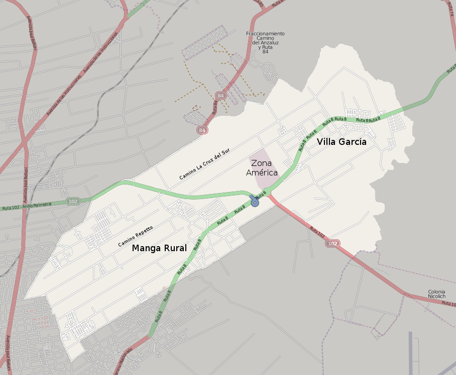 Street map of Villa Garcia Manga Rural, Montevideo, exported from OpenStreetMap. I added shading to delimit the barrio. This map may be incomplete, and may contain errors. Don't rely solely on it for navigation.